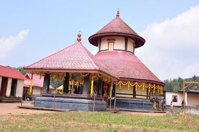 Main Sreekovil